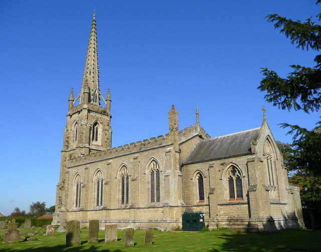 St. Andrew's church, Sausthorpe An elegant brick-built Victorian church.